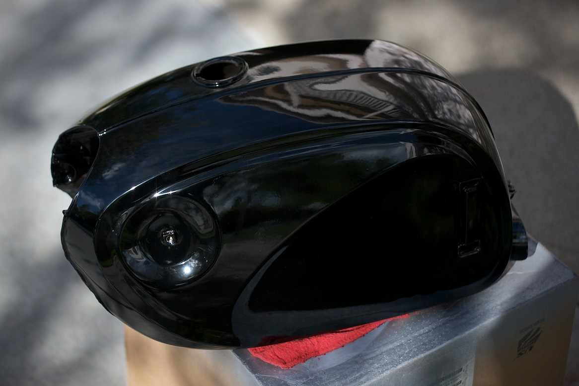 Powder Coated Gas Tank Originalbeschreibung: It's been a long road for this tank. The old paint was chipping and bubbling in numerous contact spots. I'm going to give it a muriatic acid soak, then line it with the POR-15 sealer. Then she'll be good as new again.